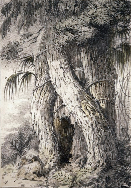 A forest scene in 19th century New Zealand. Drawing by William Strutt entitled Rata nui (Great rata tree). Shows the descending roots of a Northern rata (Metrosideros robusta) linked together by girdling roots, all surrounding a dead and decaying host tree. There is a Māori woman seated at its base. There is a nikau palm (Rhopalostylis sapida) growing in the background and epiphytes are growing from the tree's trunk.